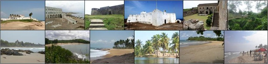 Tourism destinations in Ghana from top to bottom and left to right: 1. Elmina Castle. 2. Cape Coast Castle. 3. Fort Amsterdam. 4. Fort Metal Cross. 5. Fort Groot Fredericksburg. 6. Kakum National Park. 7. Anomabu Beach in Anomabu. 8. Ezile Bay Beach in Akwidaa. 9. Beach in Elmina in Central Ghana. 10. Beach in Ada Foah. 11. Beach in Busua. 12. Labadi Beach in Greater Accra.